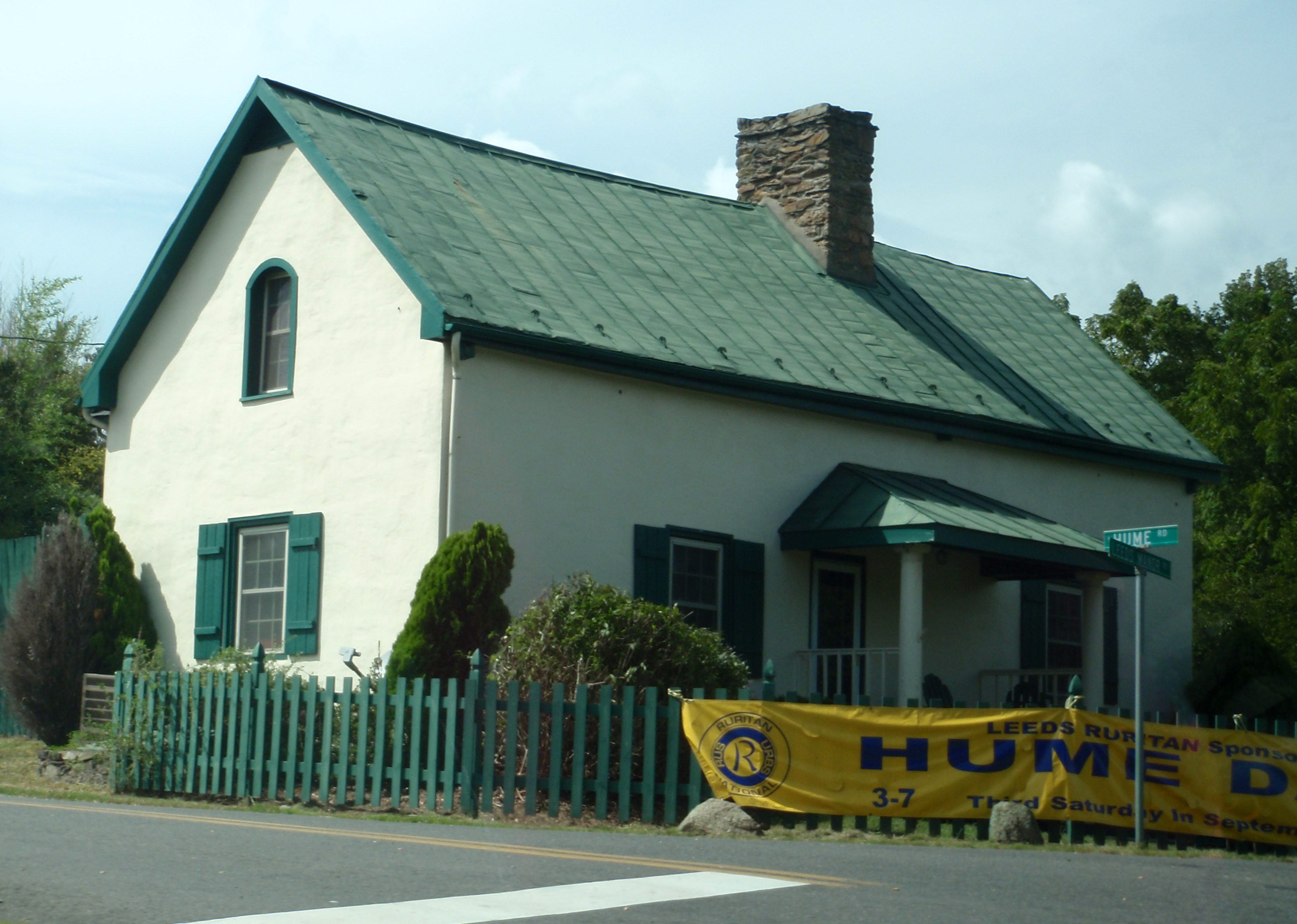 Hume Historic District Picture of house at corner of Hume & Leeds Manor Rds.